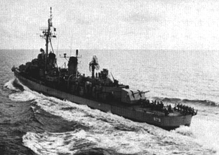 Aft view of the U.S. Navy radar-picket destroyer USS Leary (DDR-879), circa in 1962.